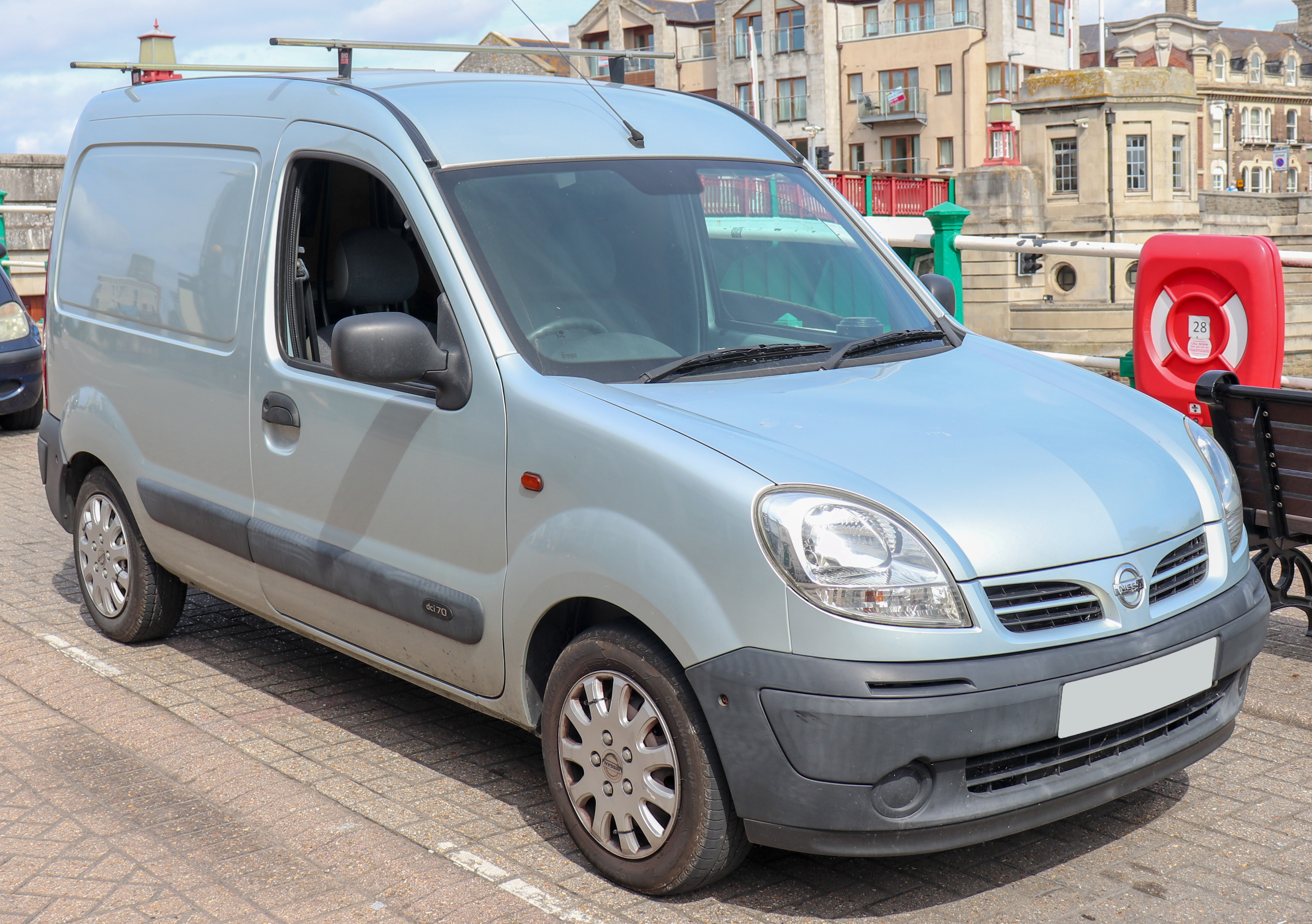 2005 Nissan Kubistar 70 SE DCi 1.5 Front Taken in Weymouth, Dorset